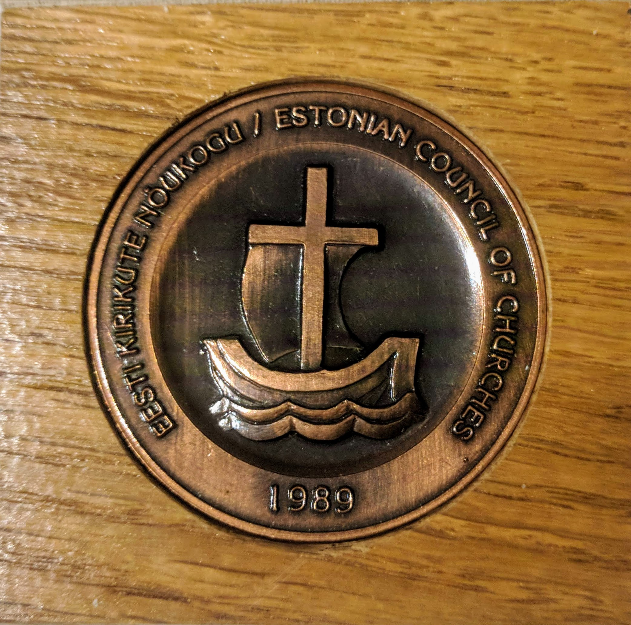 Commemorative medal of Estonian Council of Churches